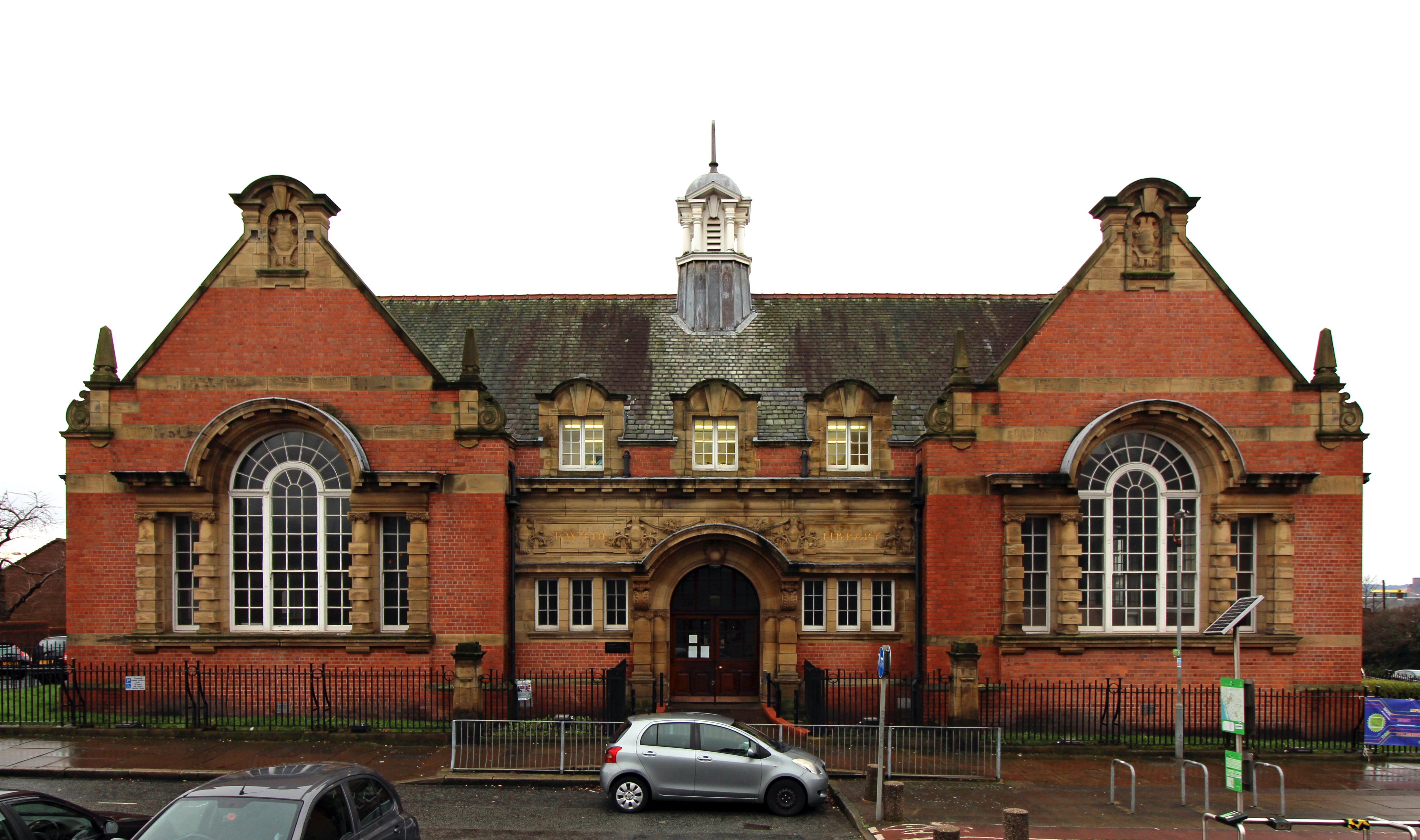 Frontage of Toxteth Library, a Grade II listed building designed by Thomas Shelmerdine in 1900